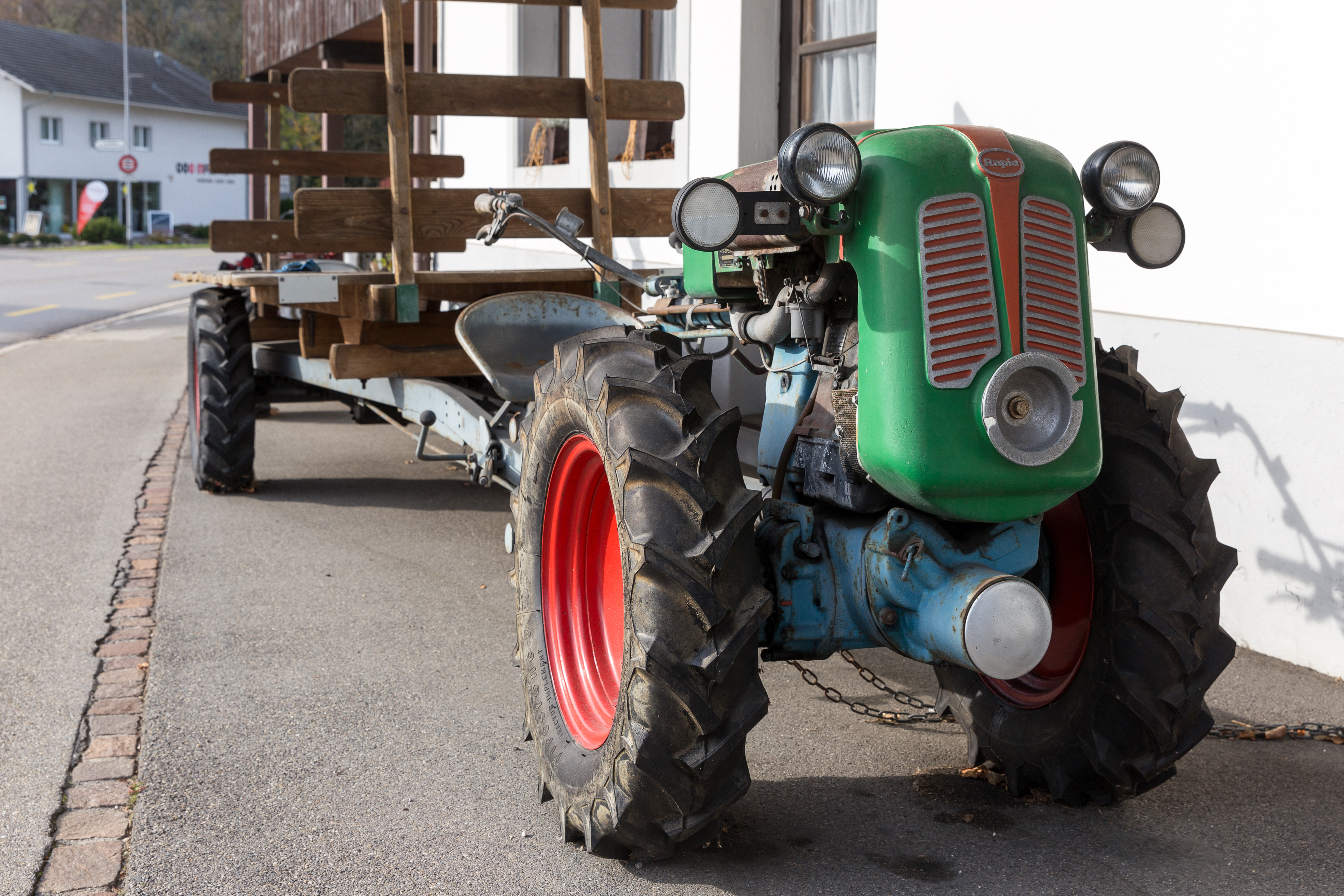 A Rapid S-Spezial two-wheel tractor at the Rapid Museum in Schöftland, canton of Aargau, Switzerland